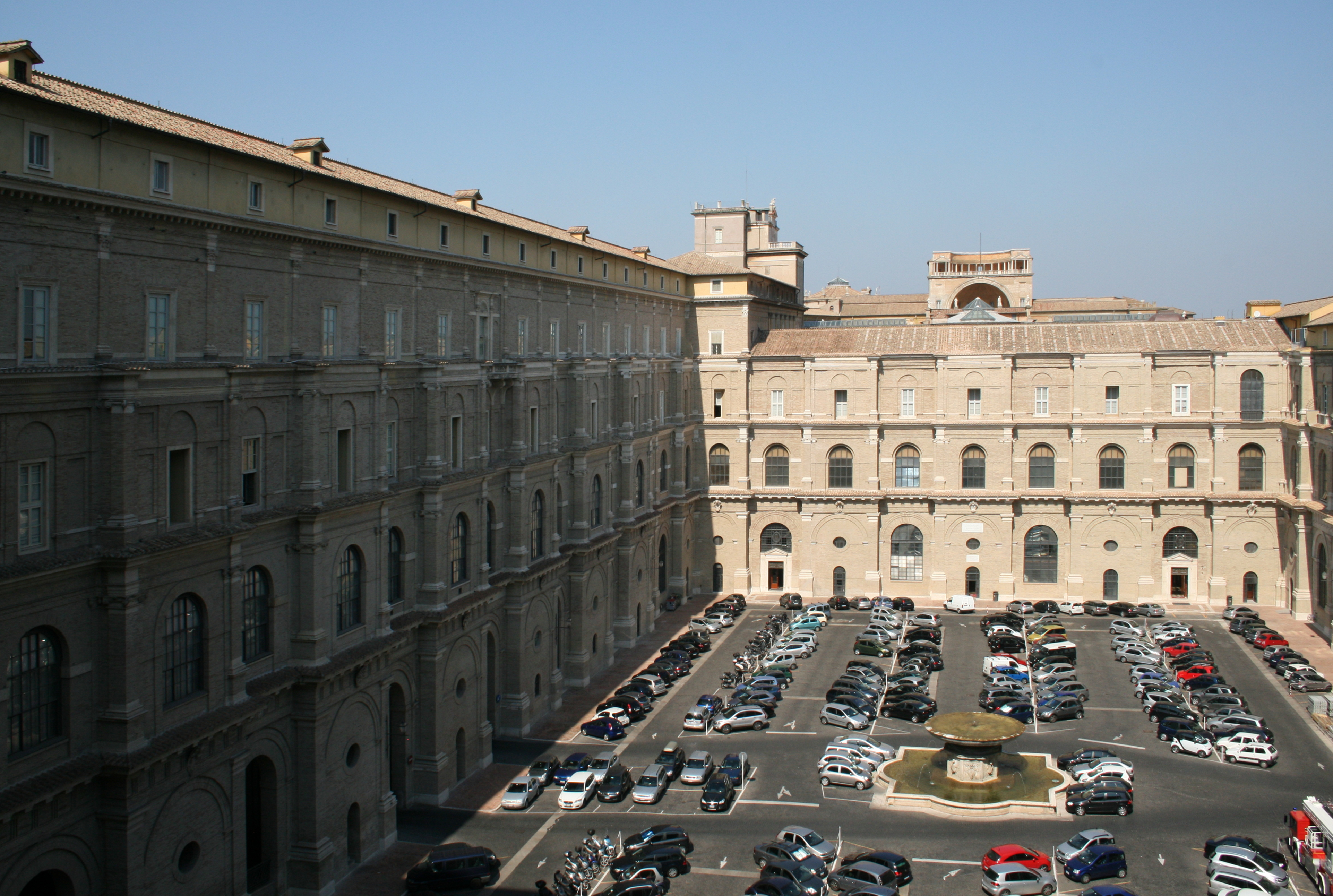 Couryrad of the Cortile del Belvedere